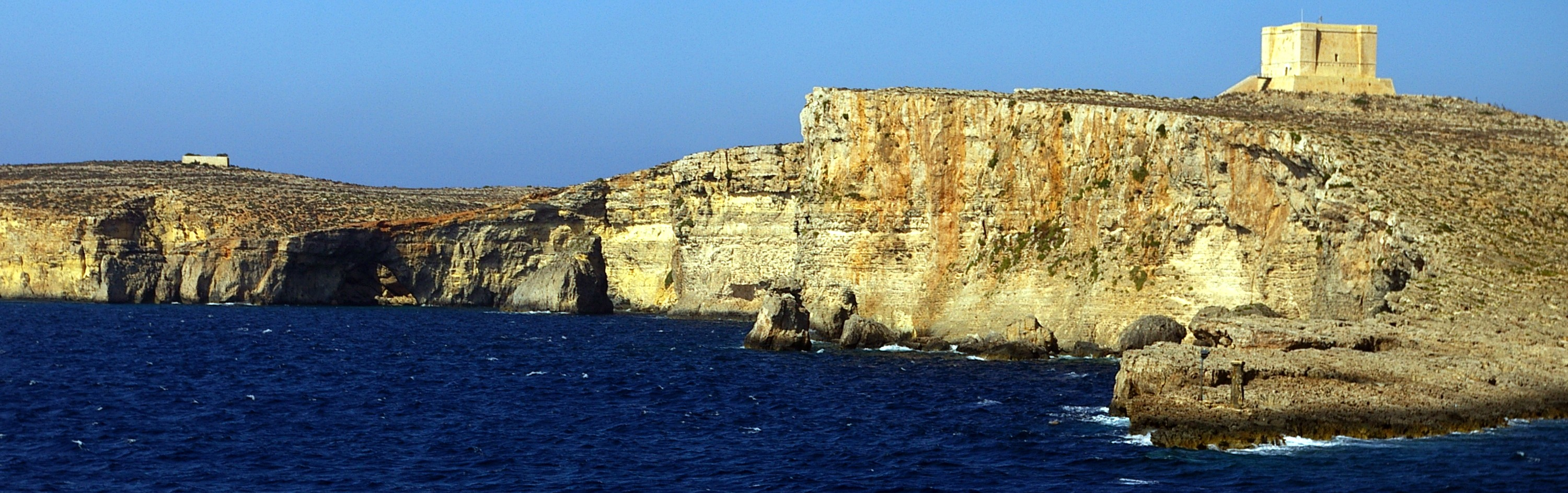 The west coast of Comino, with St Mary's Tower as seen from the Gozo-Malta ferry.